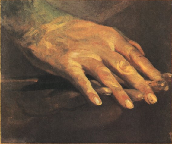 This sketch was made 28 March 1827, two days after Ludwig van Beethoven's death.